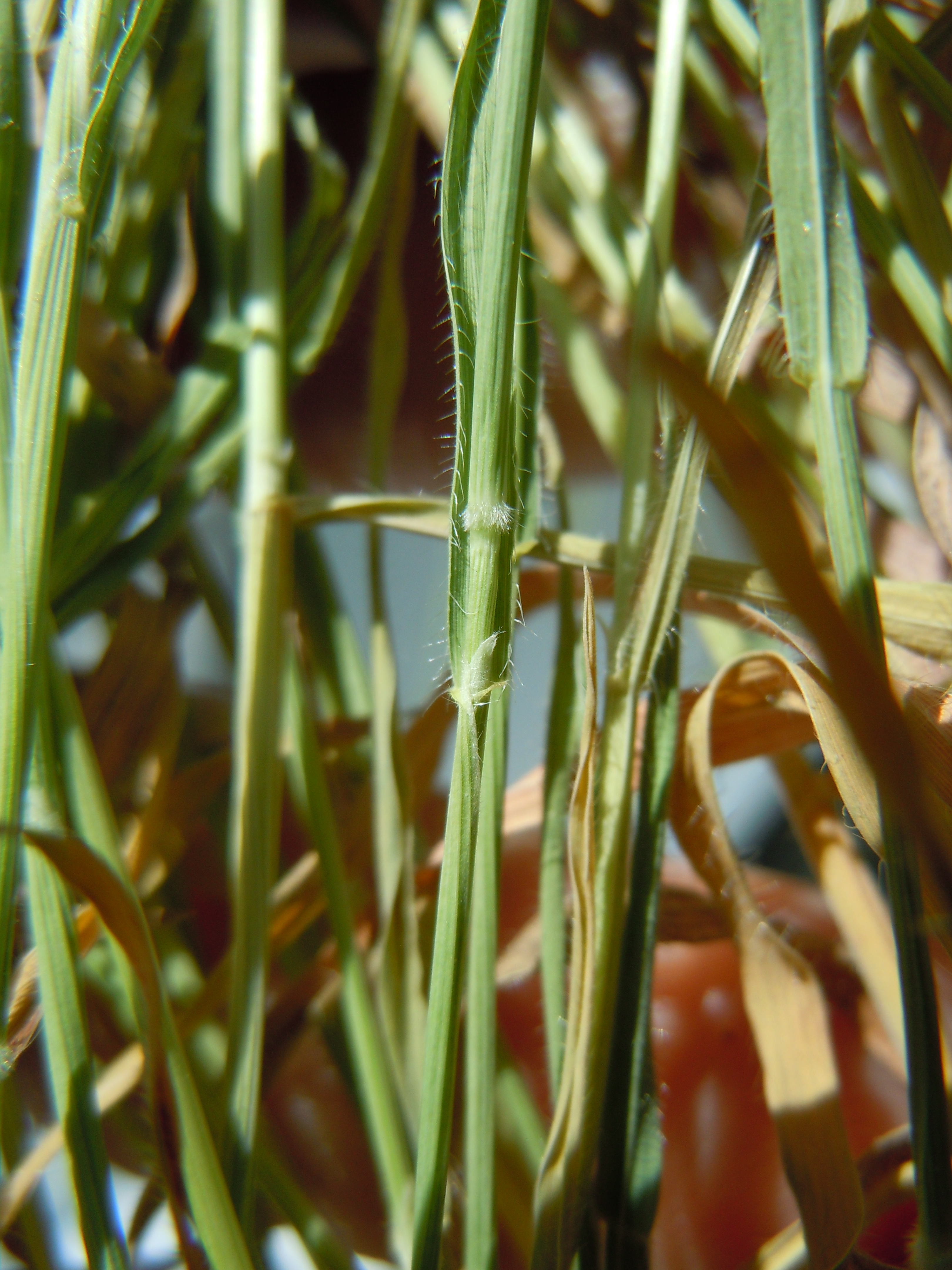 The hairy nodes and ciliate hairy leaf blades are distinctive of this species. [Photo of M. Schmidt collections.]